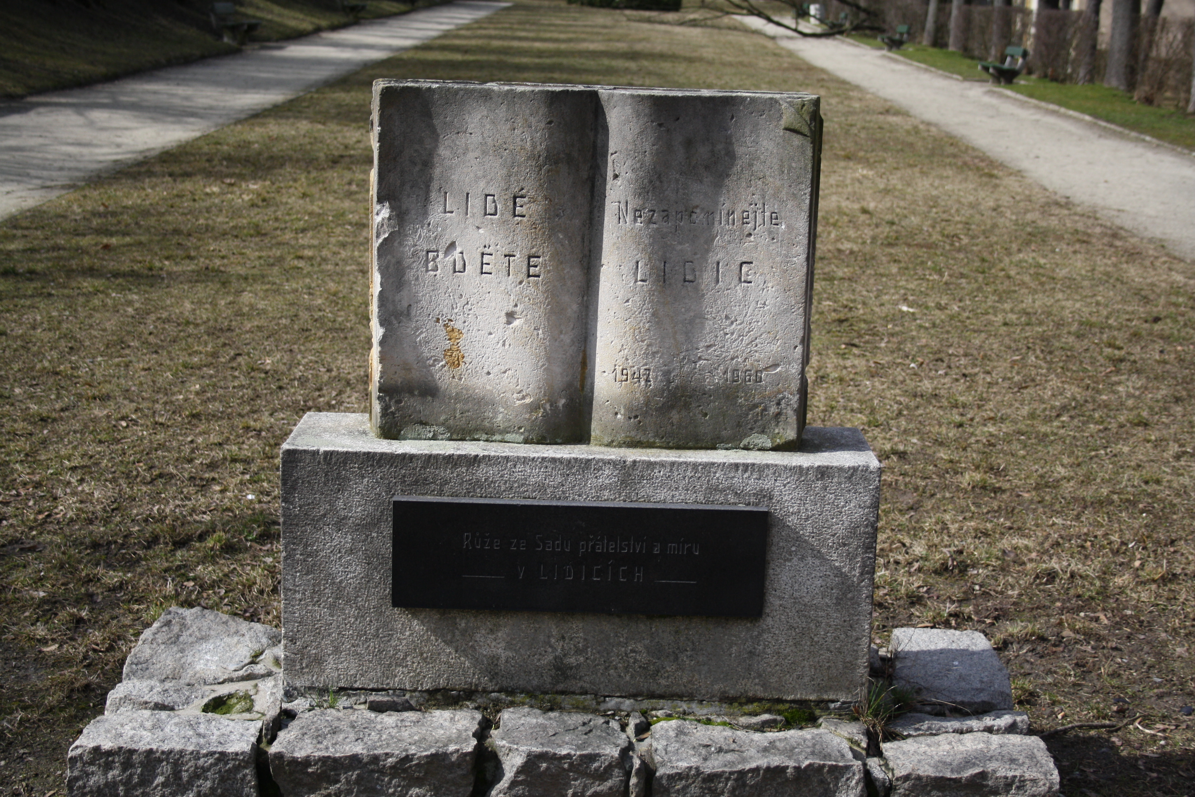 Book memoriál of Lidice incident in Třebíč, Czech Republic.